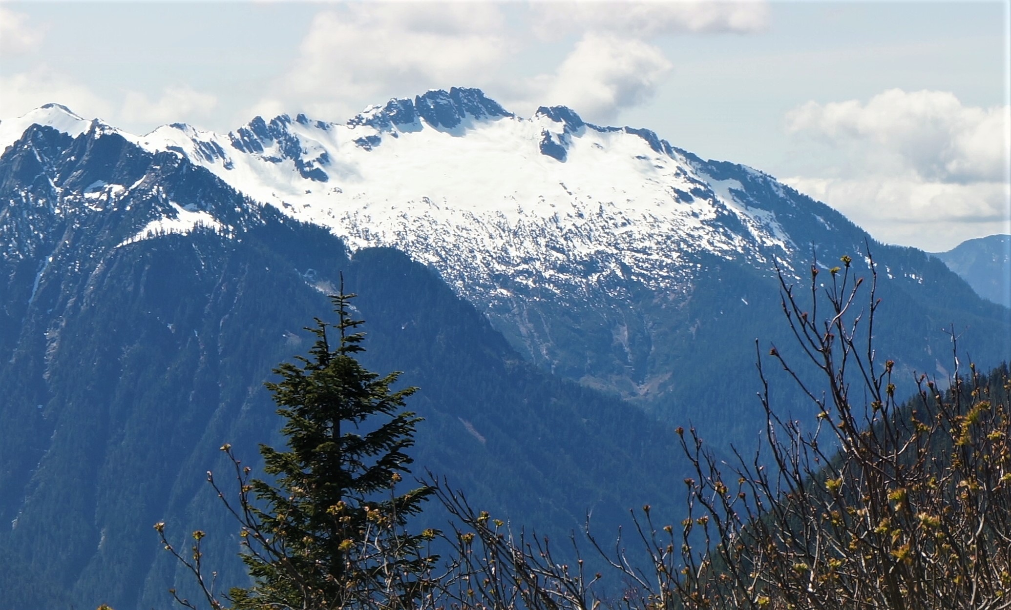 Panorama south from Point 4761 to Spire Mountain in Washington state